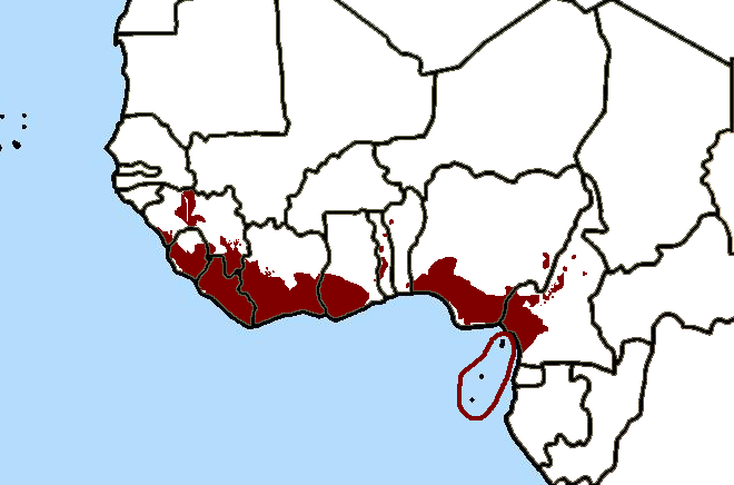 Guinean forests of West Africa hotspot map